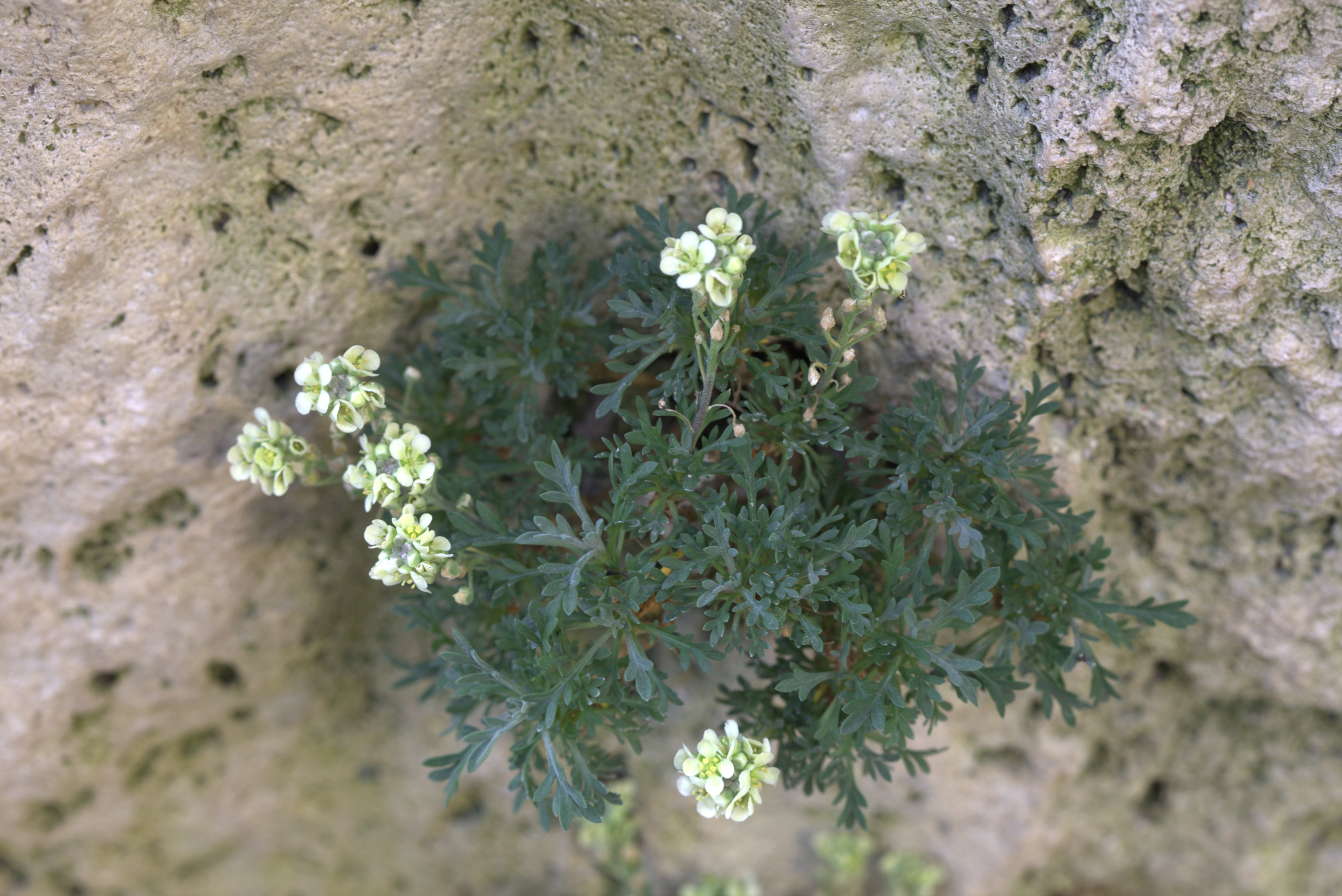 Lepidium ostleri at Gotenburg Botanical Garden in 2015. Plant id: 2002-120 s W -- Alplains